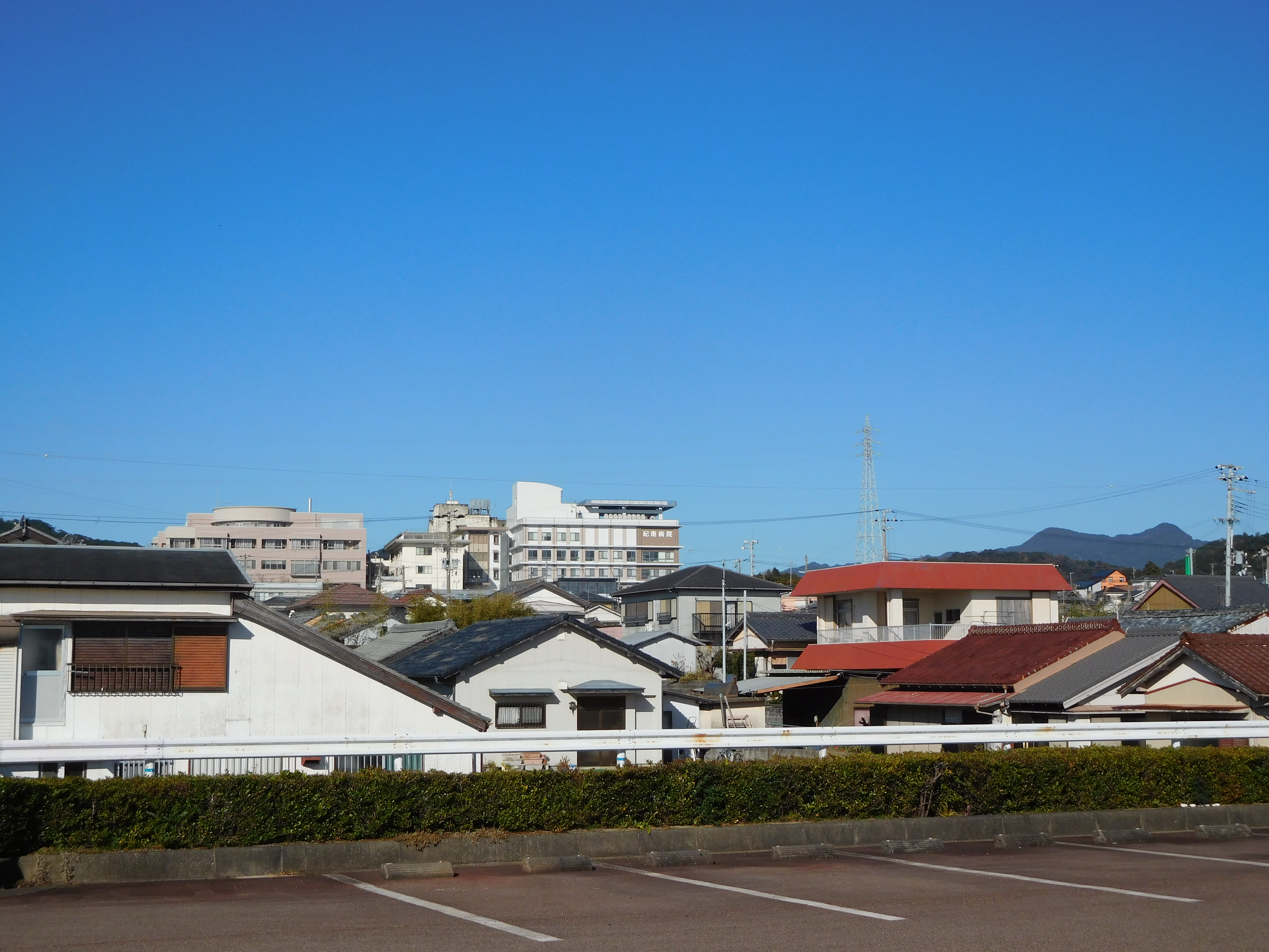 This is a landscape of Atawa, Mihama town, Mie prefecture, Japan.